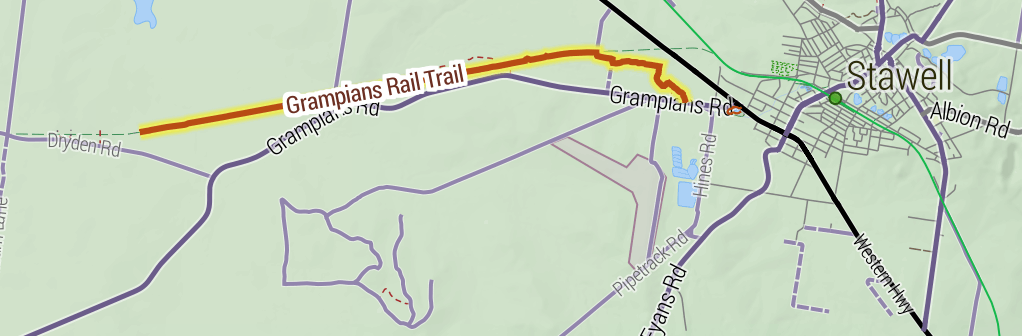 Map of the Grampians Rail Trail as of November 2014. (Maybe the trail extends a bit further west to Drydens Road - not officially open.)